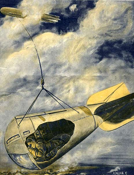 Aerial lookout in an observatory car suspended from a Zeppelin airship. Extracted from Scientific American's front cover illustration 23 December 1916.